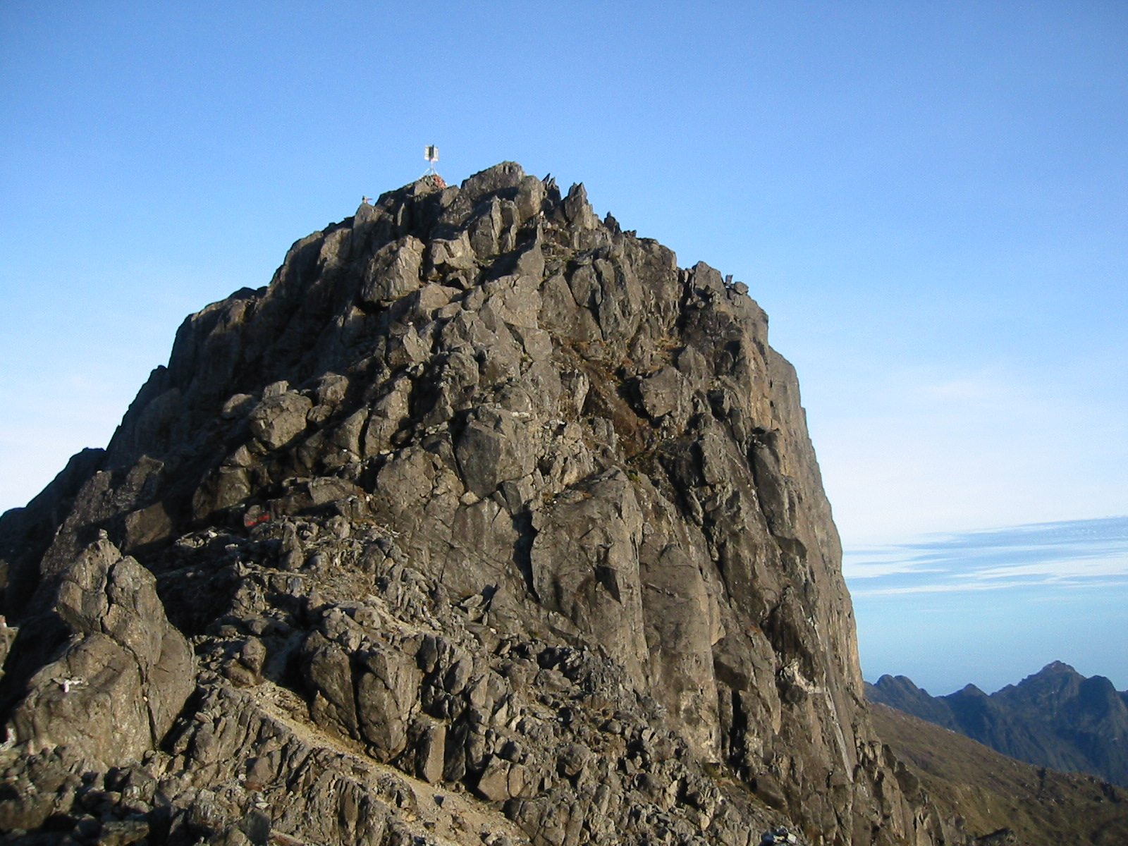 Mount Wilhelm - highest mountain in Papua New Guinea. Created and released under GFDL by Nomadtales.